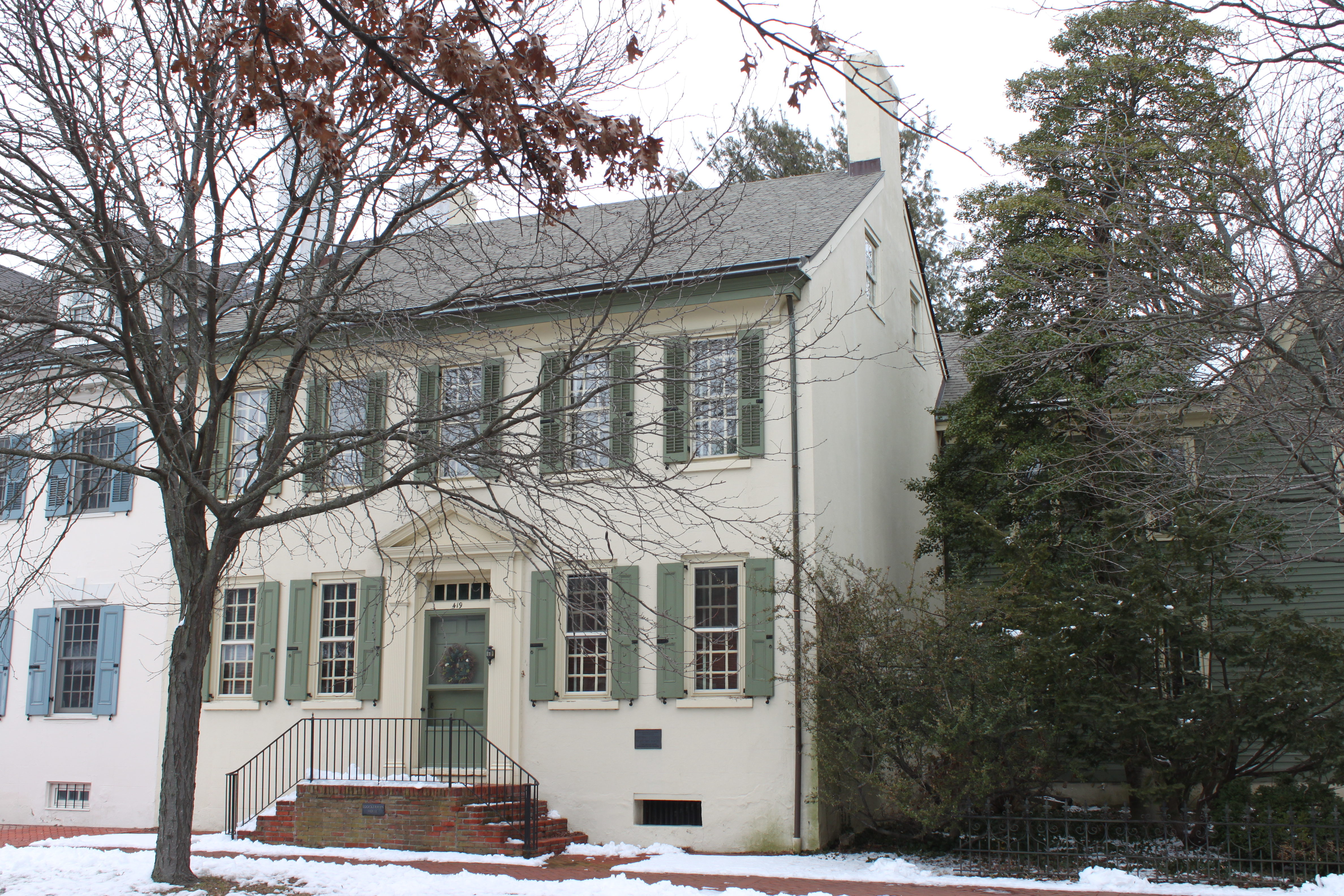 Bradford Loockerman House, 419 South State St, Dover Delaware, National Register of Historic Places listings in Kent County, Delaware